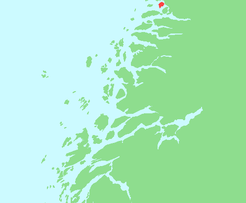 Locator map of Teksmona, Nordland, Norway